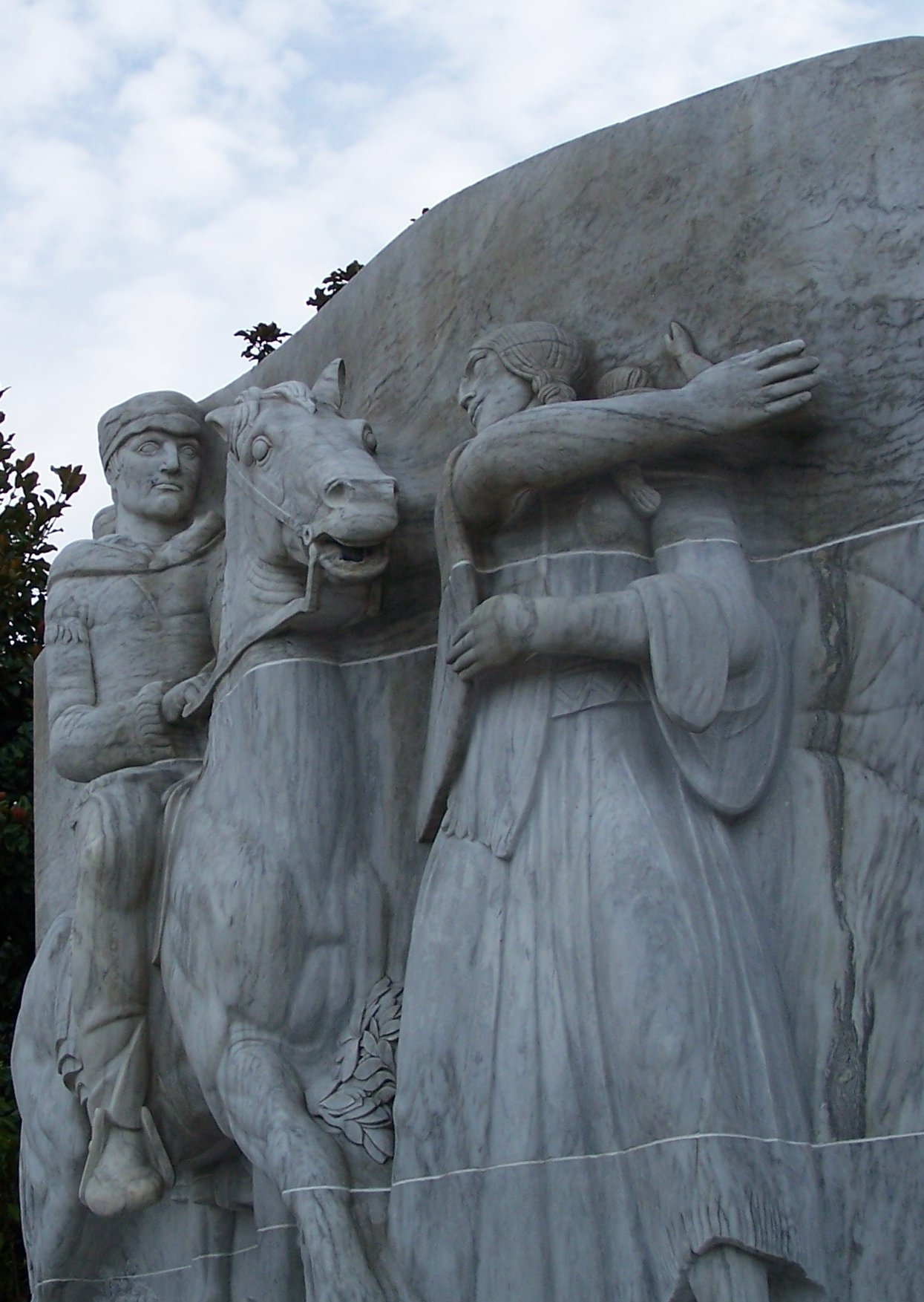 Oregon State Capitol building front steps east side